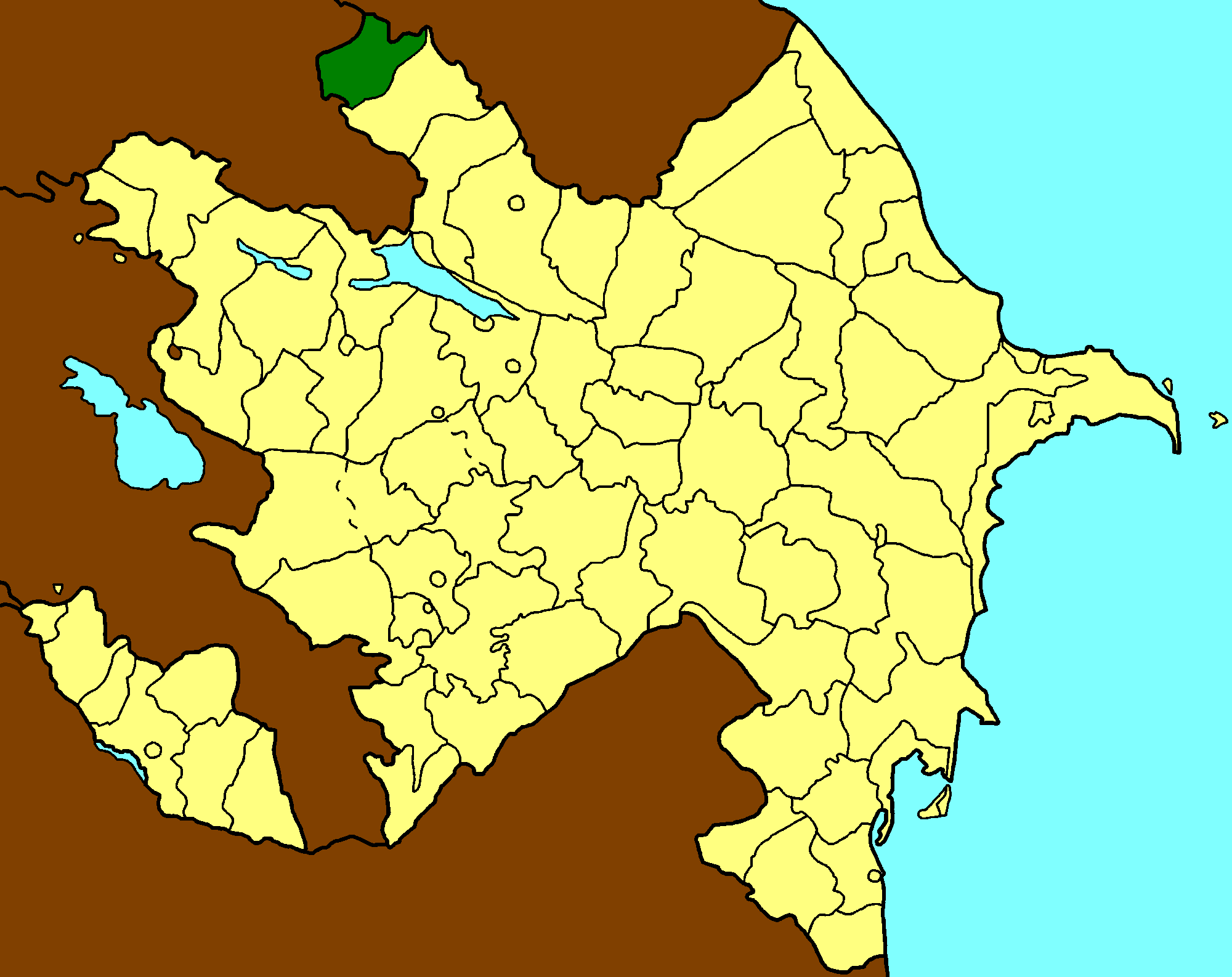 This is a picture of a map, named of location is on file name.